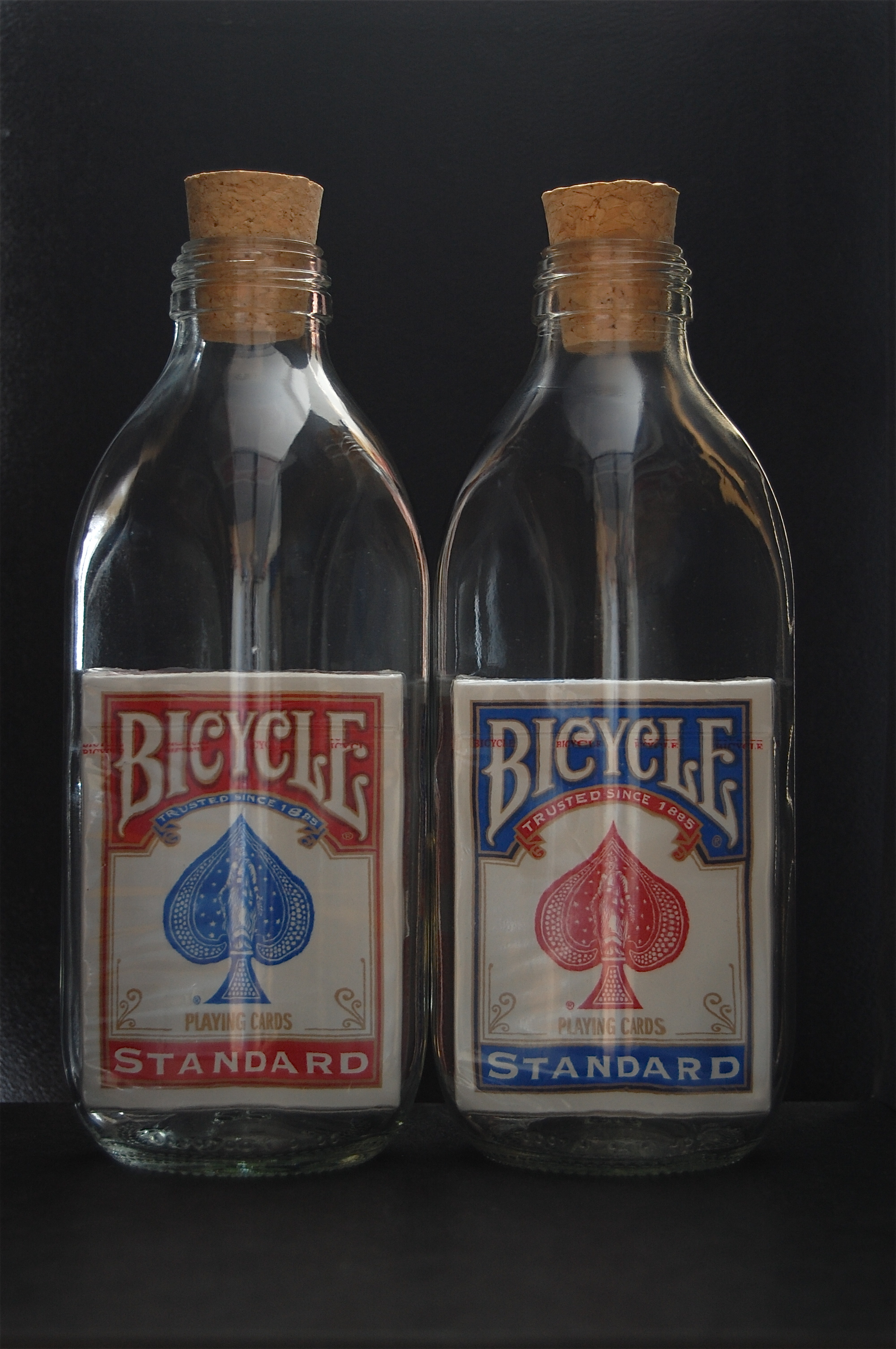 Impossible bottles - sealed decks of Bicycle Playing Cards in glass bottles.